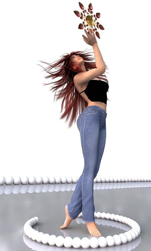 3D Computer Graphics